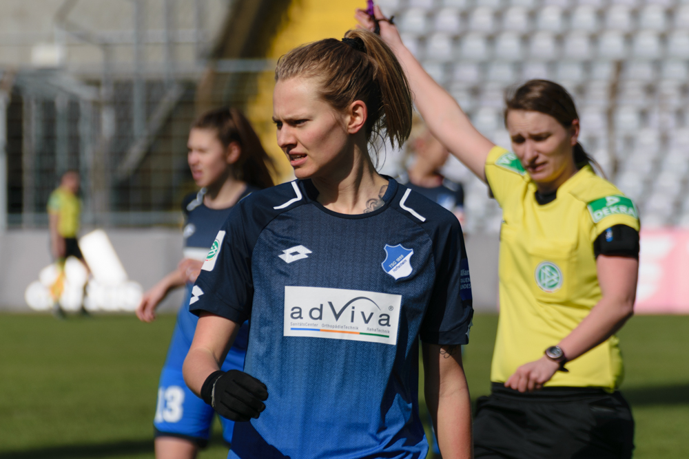 Maximiliane Rall at FC Bayern vs TSG Hoffenheim